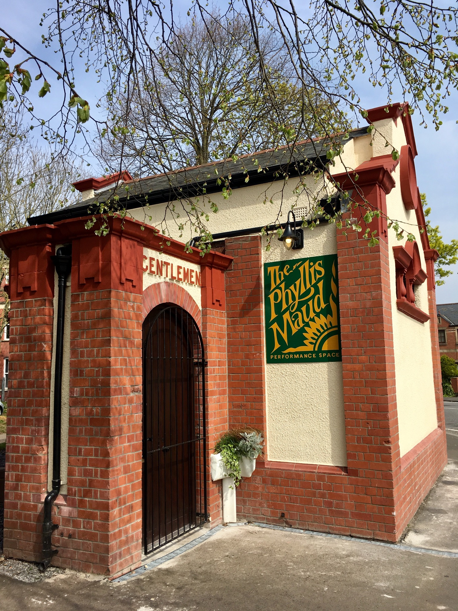 Public Conveniences Wikidata has entry Q29495693 with data related to this item.